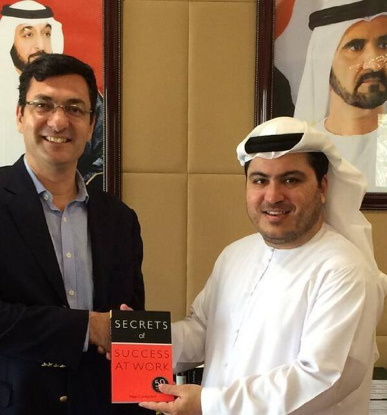 Nigel Cumberland presenting to Marwan Abedin, CEO of Dubai Healthcare City a copy of his latest book